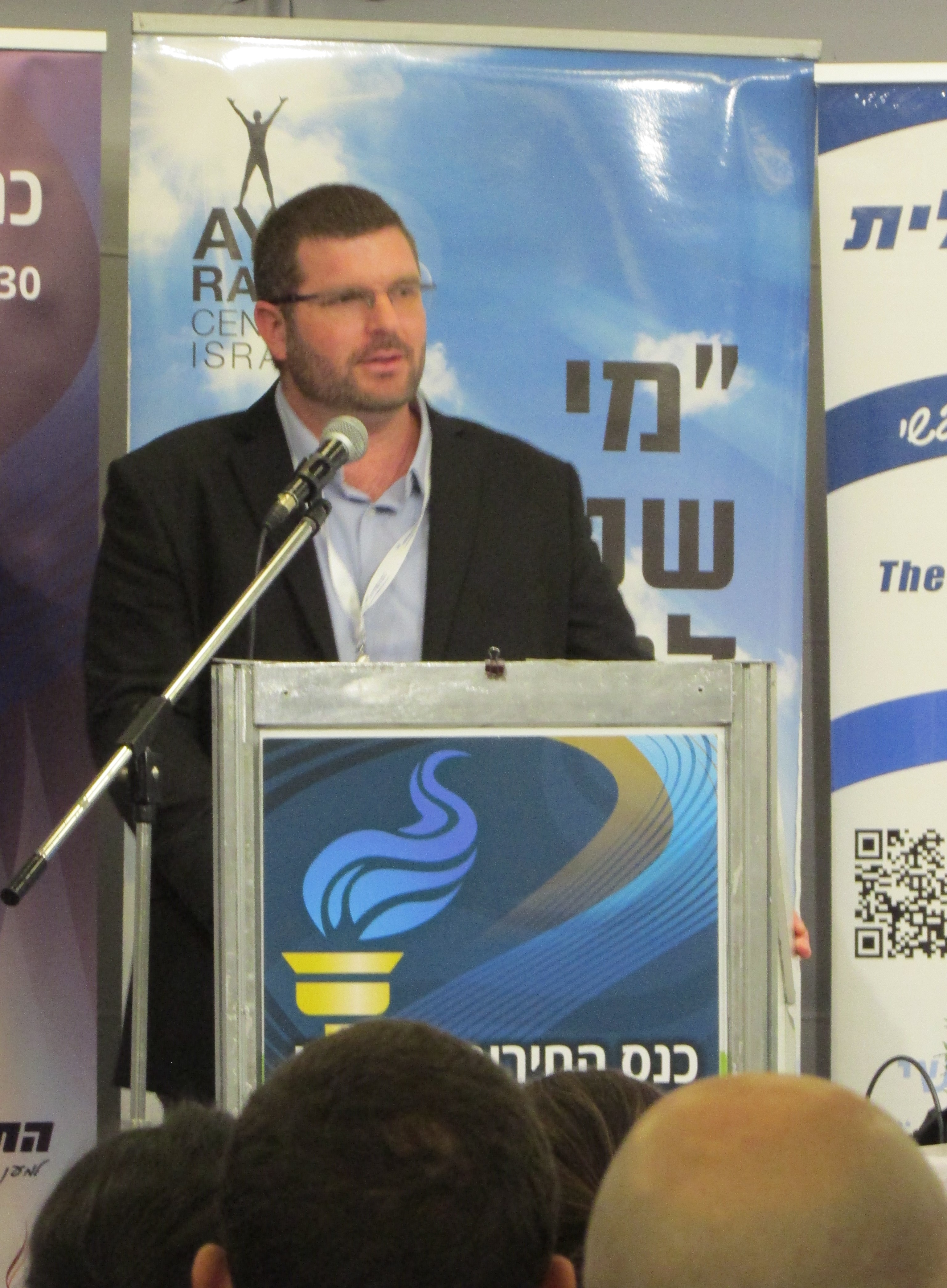 AkivaBigman at the Fourth Israeli annual freedom conference